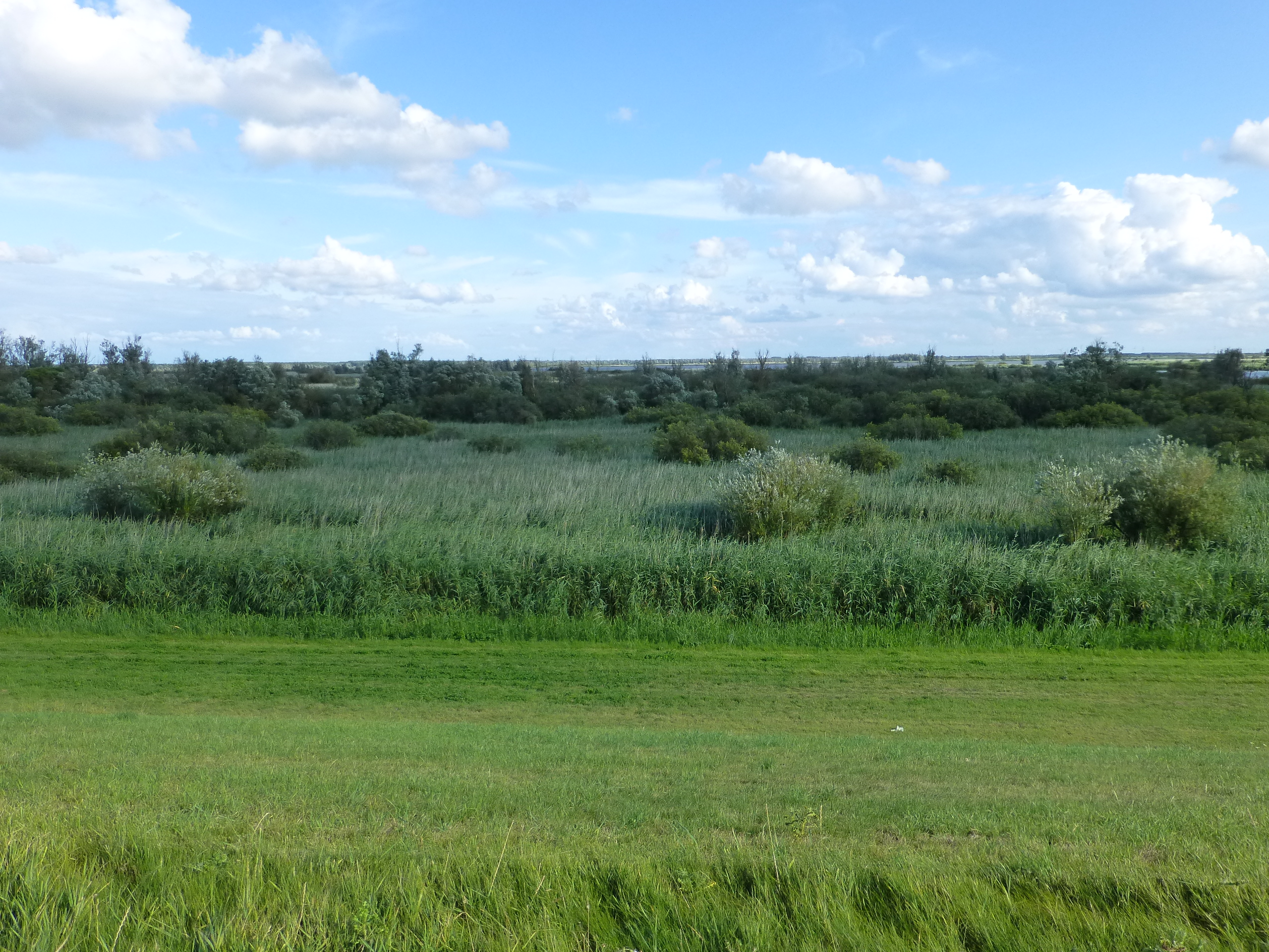 A view from the Oostvaardersdijk (Oostvaarder Dyke), which runs from Lelystad to the west-south-west Lelystad-Haven, the harbourside section of Lelystad. The dyke separates the Flevolands polders from the IJsselmeer.